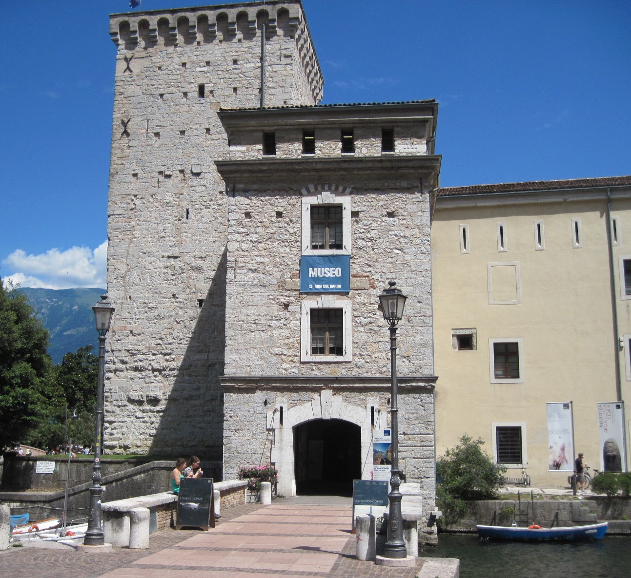 castle Riva del Garda 1